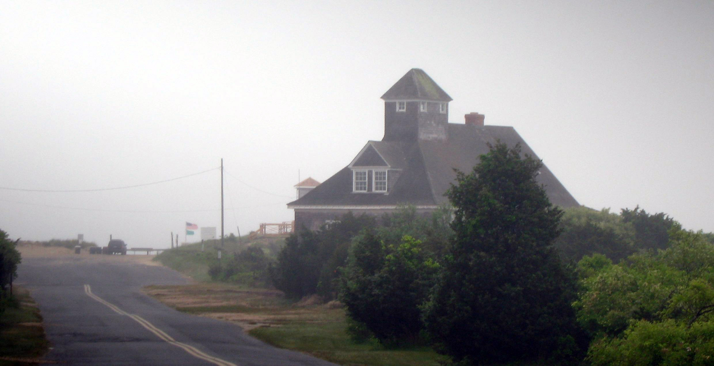 United States Coast Guard station at Atlantic Avenue Beach (also known as Coast Guard Beach) in Amagansett, New York, after the station was moved back to near its original location in 2007. The station was near where a Coast Guardsman discovered Nazi saboteurs on the beach during World War II.